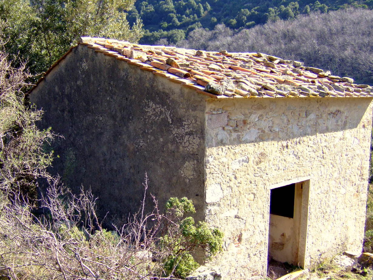 elba island